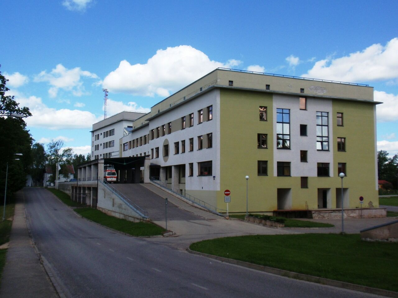 Valga, Estonia|Valga hospital, Estonia.